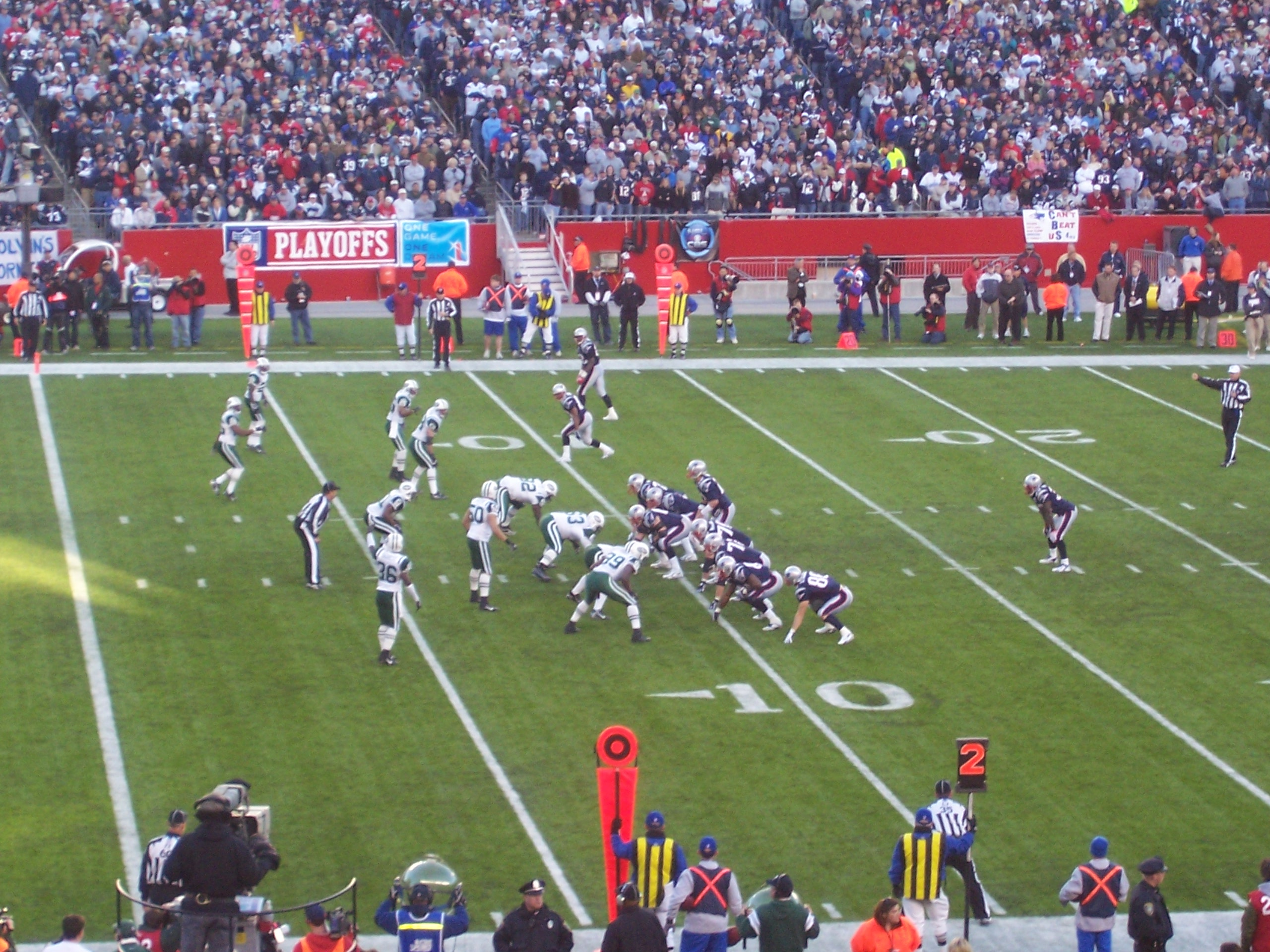 The New England Patriots' offense on the field against the New York Jets in a 2006-07 NFL Wild Card Playoff game.